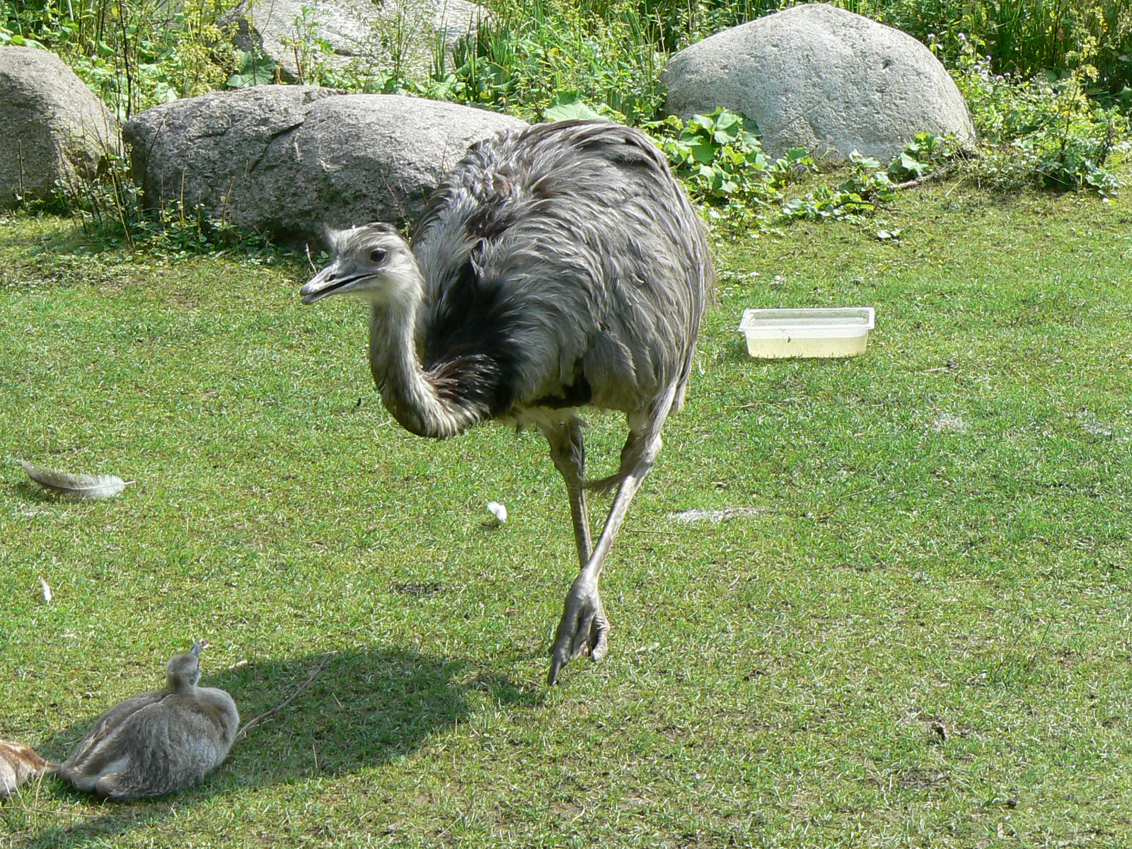 Rhea americana / Greater rhea / nandu at Hamburg Zoo, Germany